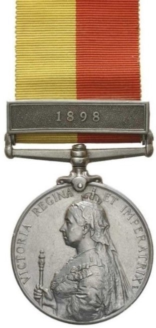 British campaign Medal for service in Africa, 1897-99